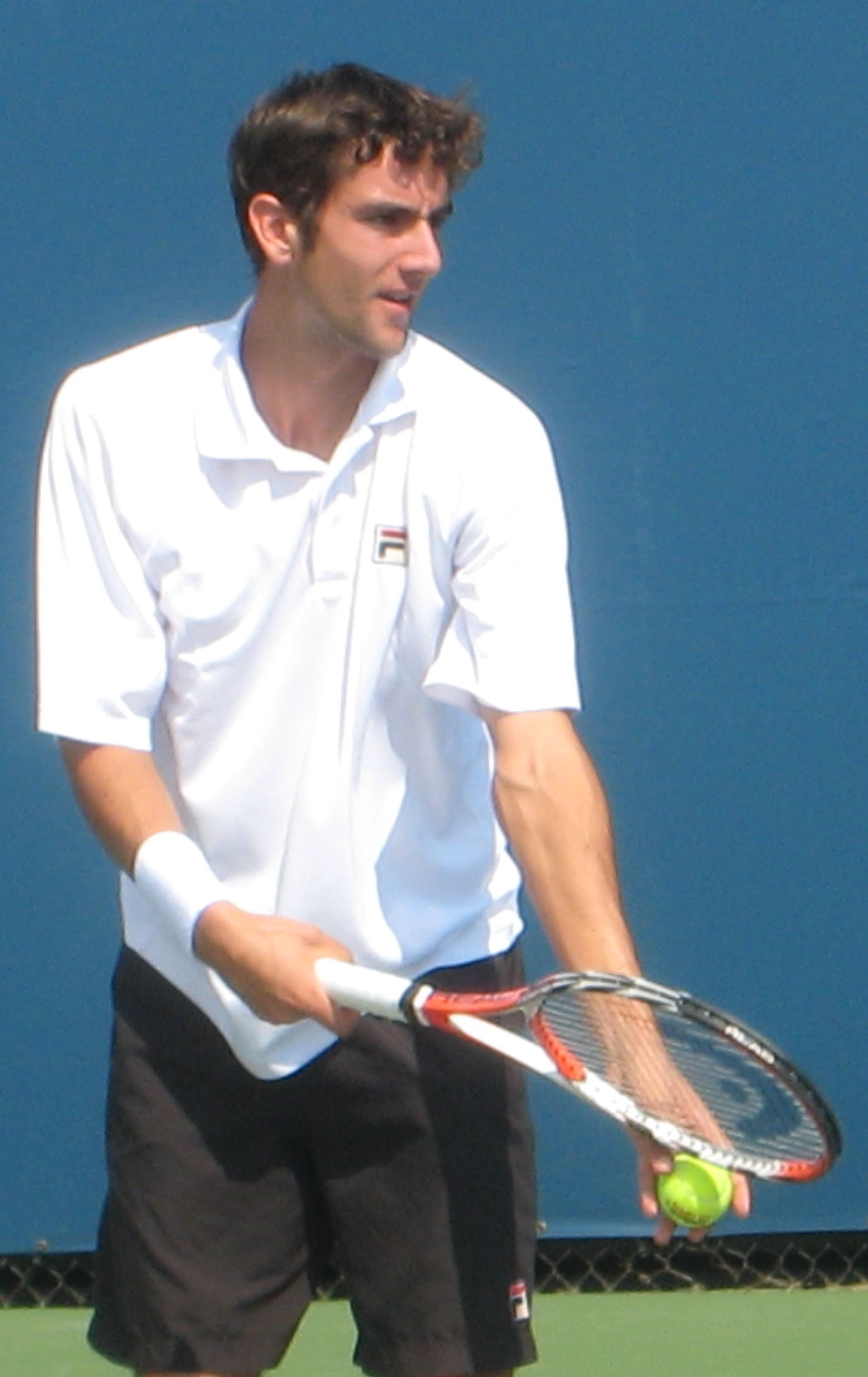 Marin Cilic at the 2008 Pilot Pen Tennis tournament, playing against Viktor Troicki.